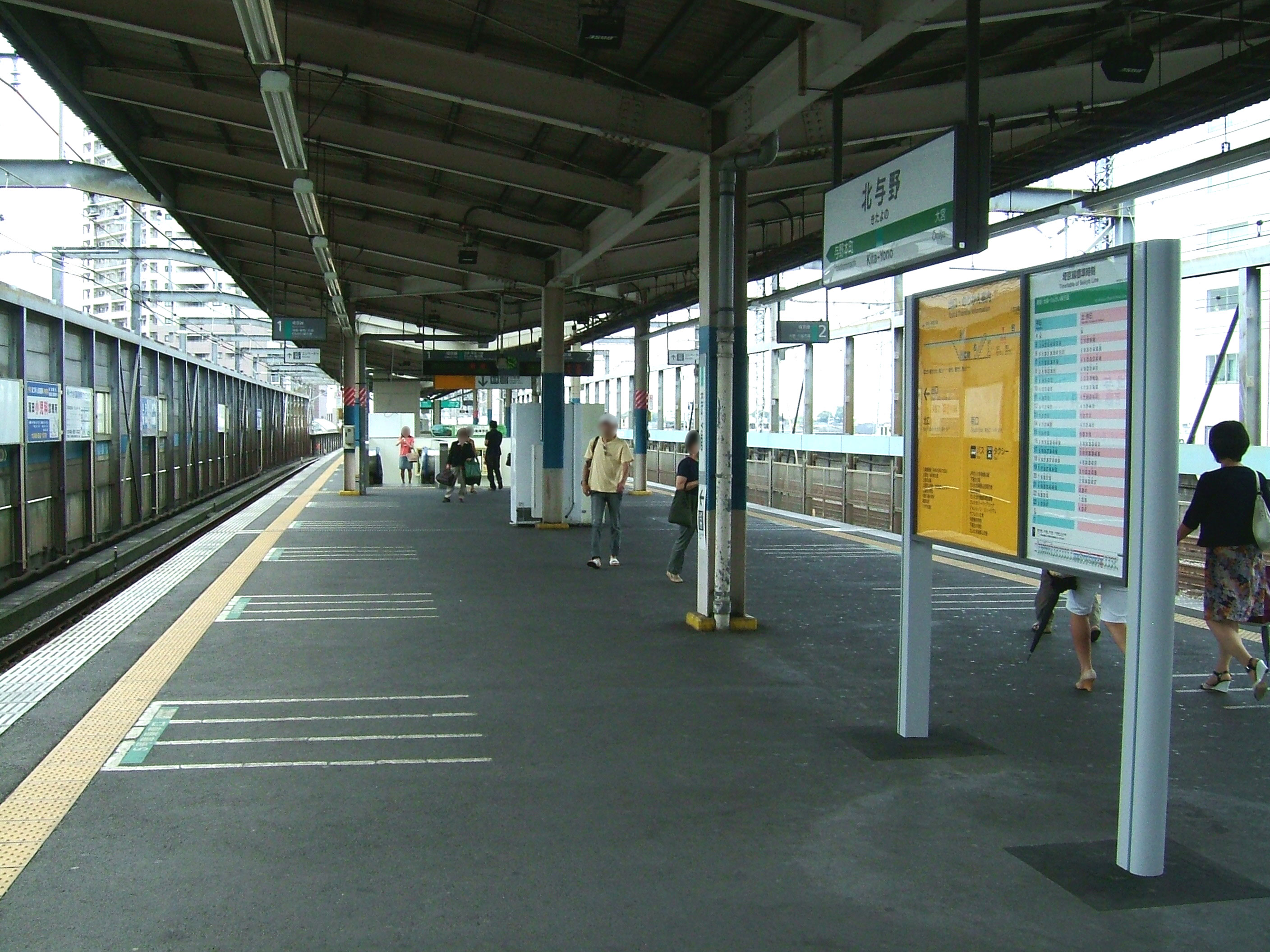 The platform at Kita-Yono Station on the Saikyo Line in Chūō-ku, Saitama city, Japan